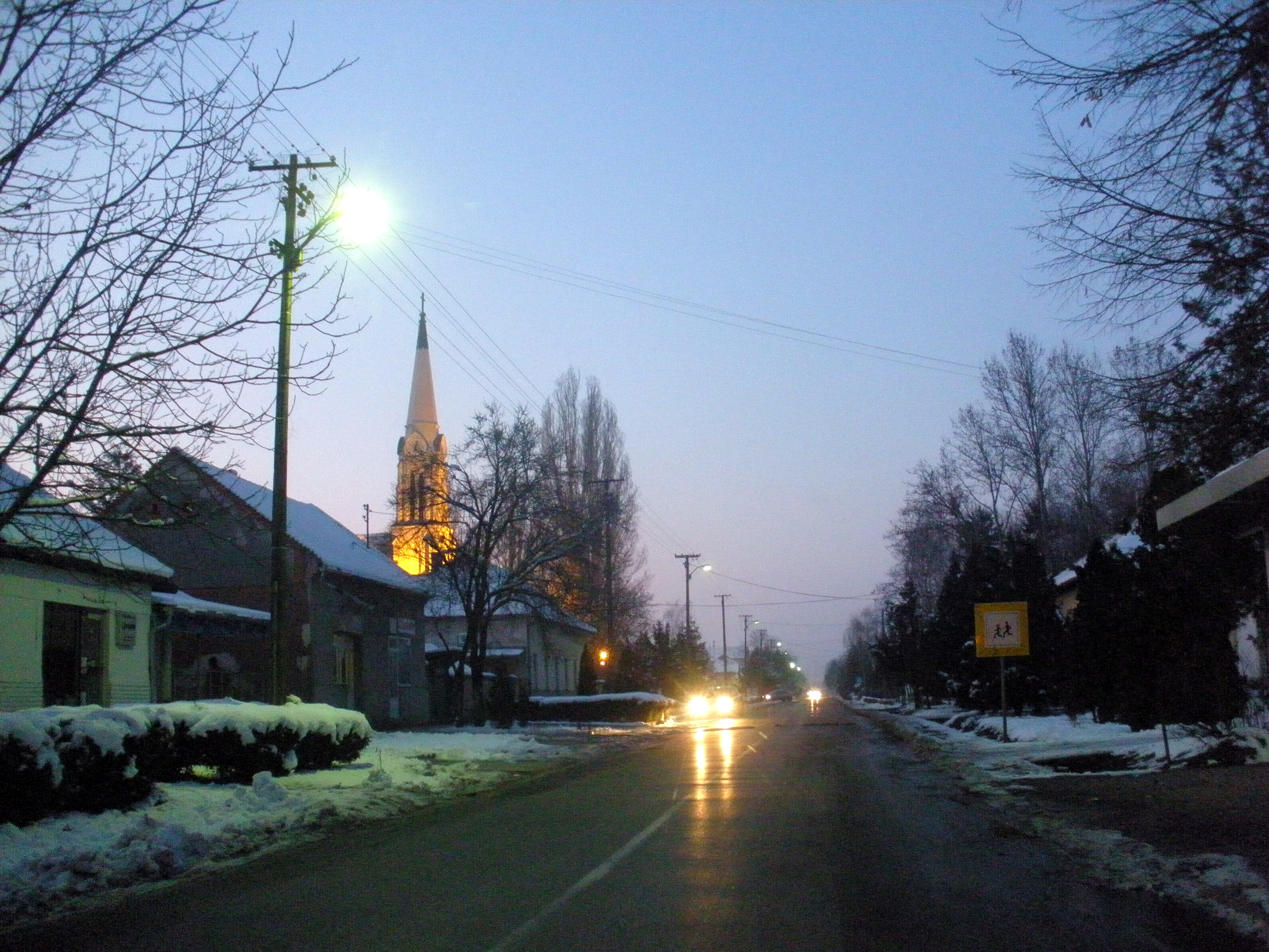 center of Mužlja in Vojvodina by night